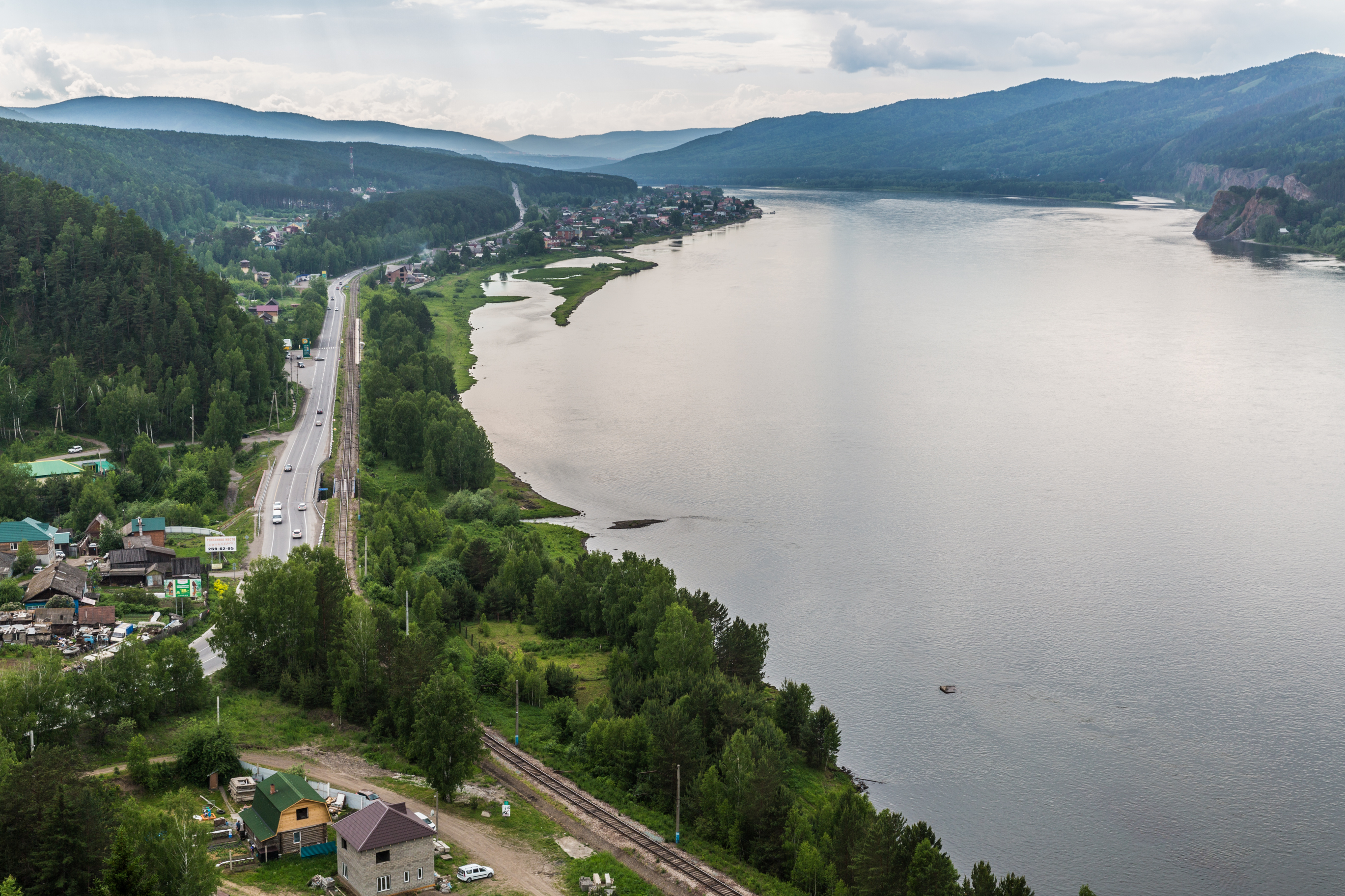 The Yenisei River: view from the observation deck «Tsar-fish». To the left of the highway and the railway line is the Sliznevo village, to the right - the Ovsyanka village (Divnogorsk Urban Okrug). On the right side of the picture (on the left bank of the Yenisei River, opposite the Ovsyanka village) are the rocks the Guard bull and the Guard walls (Mininsky Selsovet).